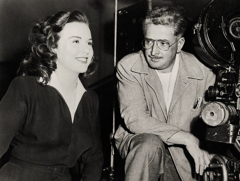 Deanna Durbin and cinematographer William H. Daniels on the set of For the Love of Mary (1948) - publicity still